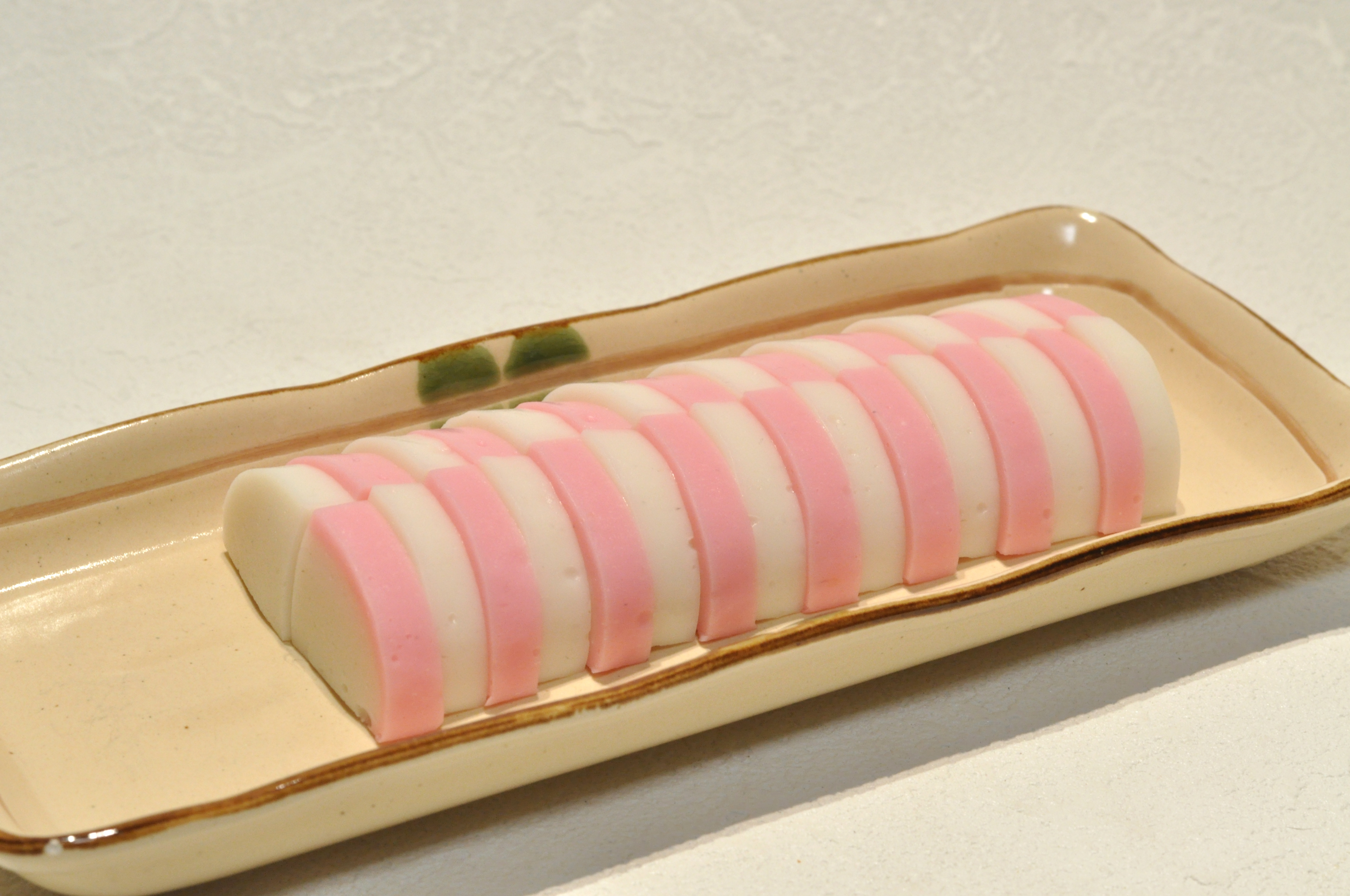 One of Japanese foods prepared for New Year's "Kouhaku-kamaboko"